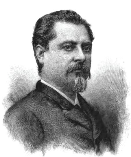 Drawing of President Luis Bogran